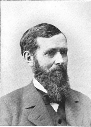 Joshua Truitt, husband of Anna Augusta Truitt